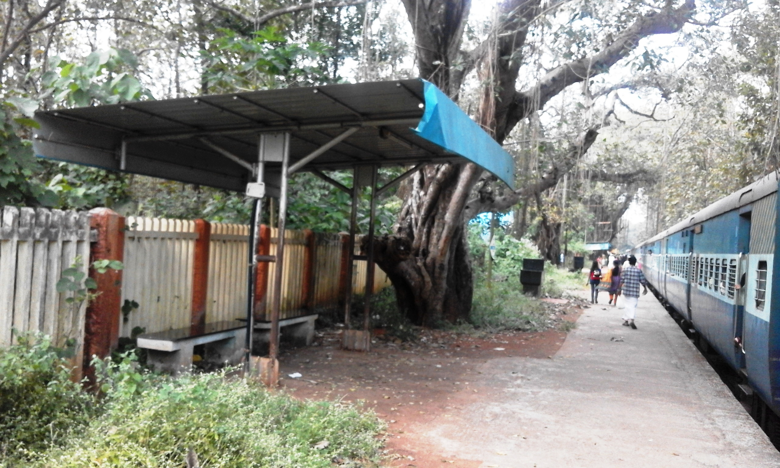 Cherukara, Perinthalmanna, Malappuram District, South Malabar Region, Kerala State, India.